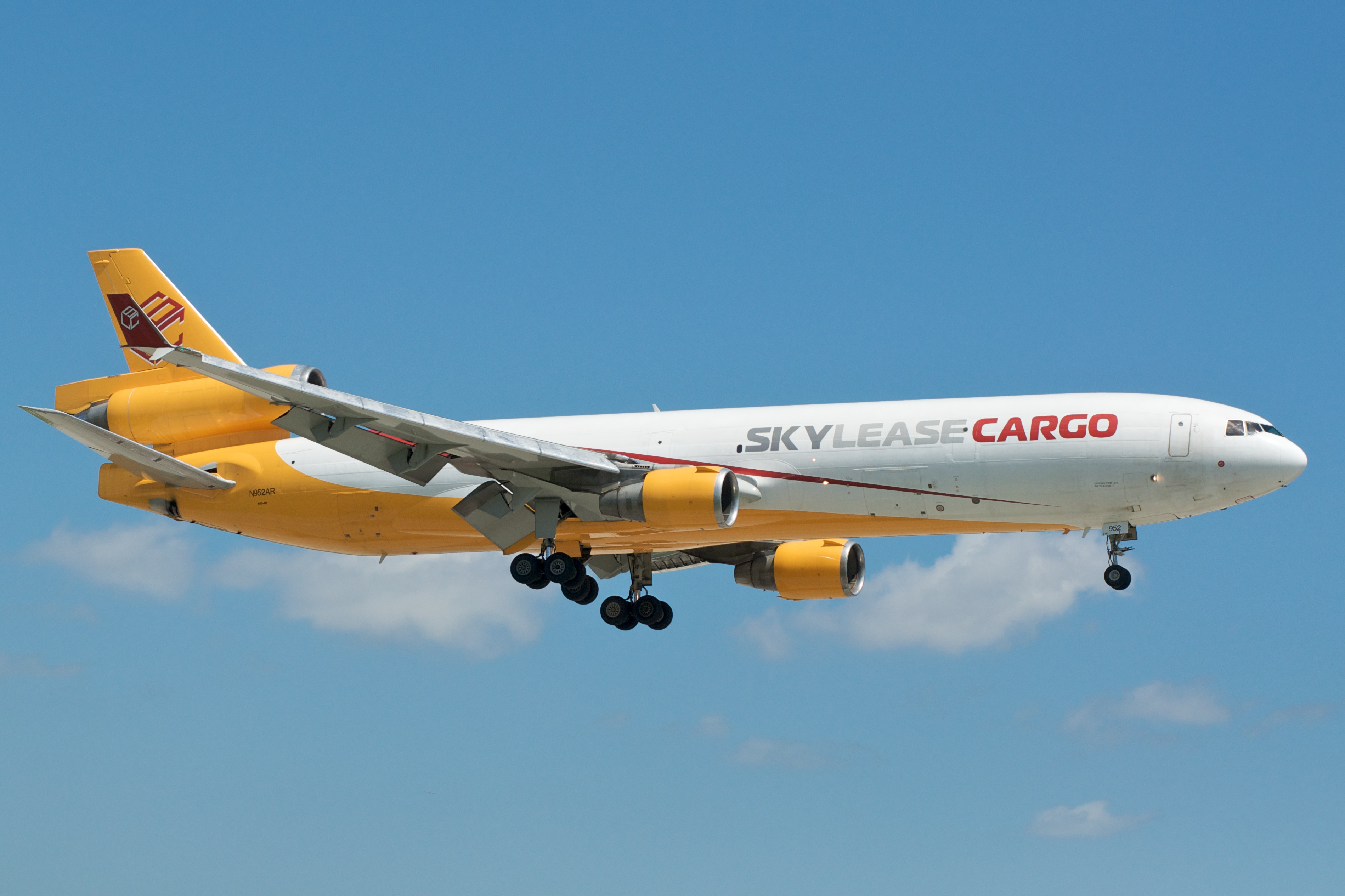 Skylease Cargo MD-11F on short final, runway 9, Miami International Airport